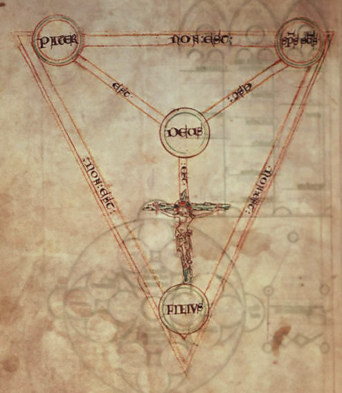 Detail from Cotton Faustina manuscript B. VII, folio 42v, showing a "Scutum Fidei" or Shield of the Trinity triangular diagram, with a representation of Christ on the cross. This is part of a ca. 1210 illustration to the Compendium Historiae in Genealogia Christi by Peter of Poitiers (or Petrus Pictaviensis). The Latin text on the shield in the image includes the words or scribal abbreviations for "PATER" (the Father), "SPIRITUS SANCTUS" (the Holy Spirit), and "FILIUS" (the Son) in the three outer nodes, and "DEUS" (God) in the center node. The text in the links connecting the outer nodes to each other reads "NON EST" (Is not), while the text along the links connecting the center node to the outer nodes reads "EST" (Is). For the history and meaning of this general "Shield of the Trinity" or "Scutum Fidei" diagram of traditional western Christian symbolism (a visual summary of the first part of the Athanasian Creed), see the main article Shield of the Trinity. The reason for placing "Filius" in the bottom node of this version of the diagram, with a illuminated representation of the Crucifixion above it, is presumably the same as for a ca. 1250 version of the diagram included in Matthew Paris' Chronica Majora, where the diagram was annotated with the Latin Vulgate version of the Biblical passage meaning "The Word was made flesh" (from the Gospel of John, verse 1:14). This is the chronologically earliest known version of the Scutum Fidei or Shield of the Trinity diagram.